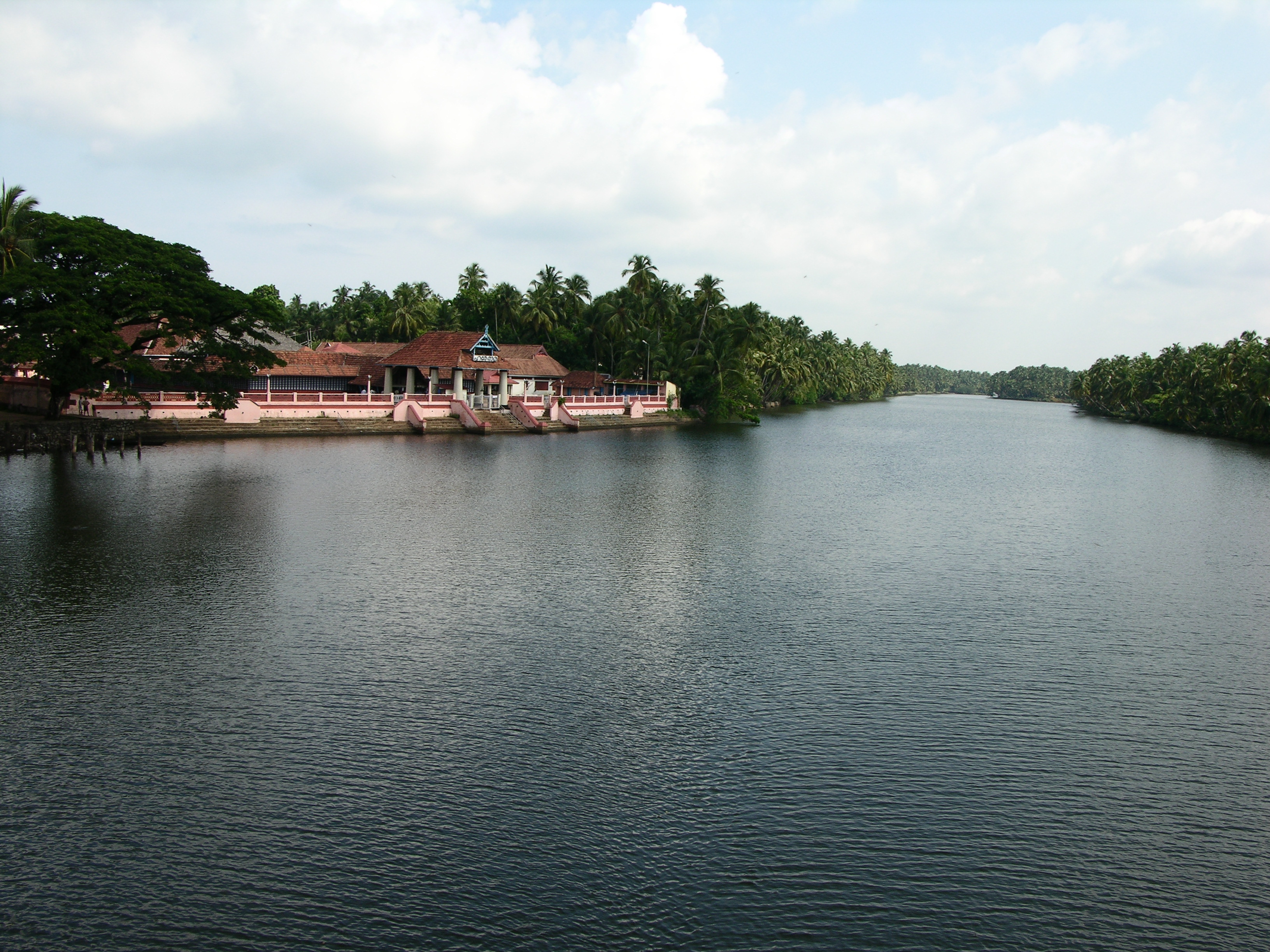 A view of Triprayar River and Triprayar Temple